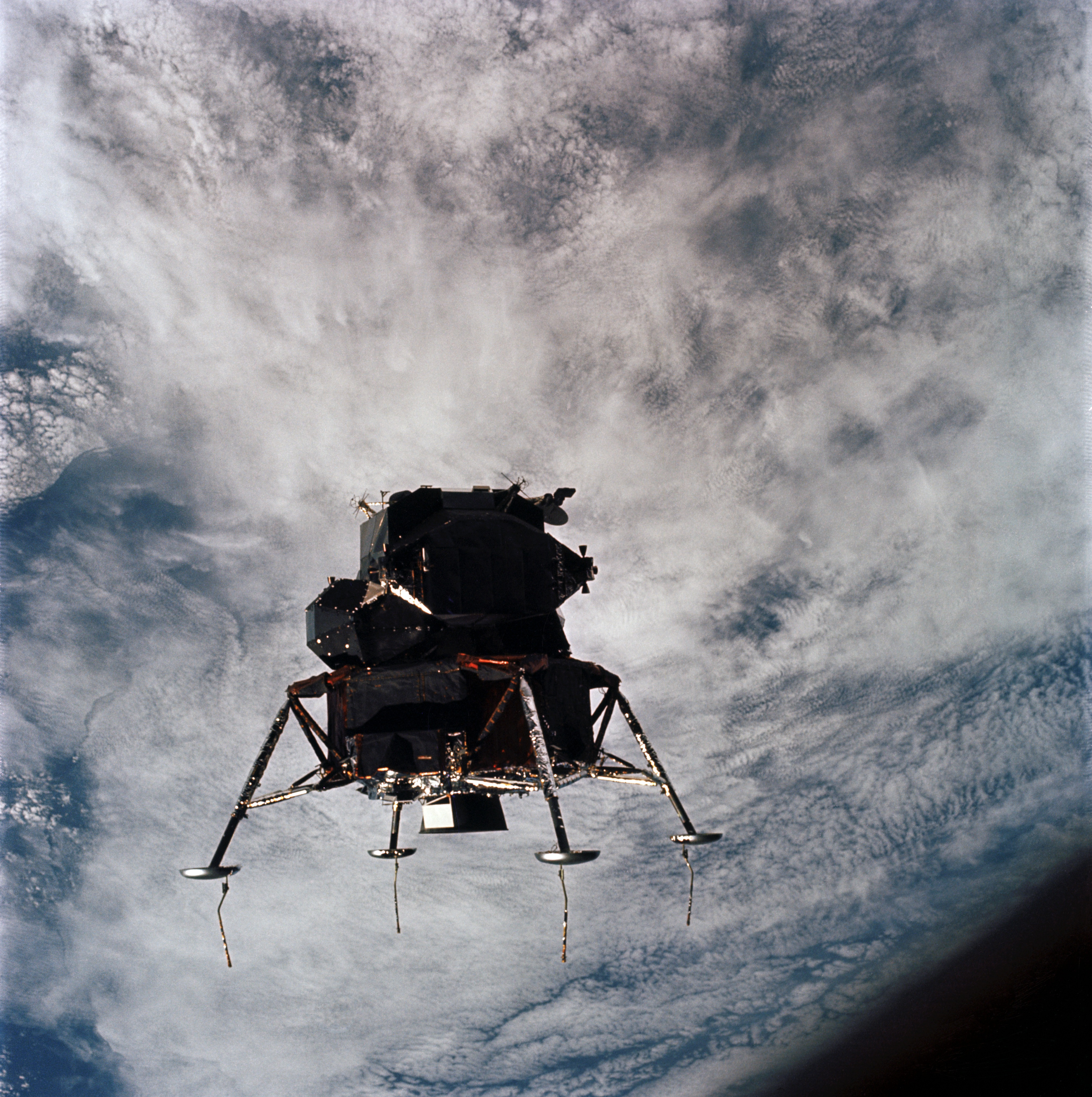 AS09-21-3199 (7 March 1969) --- Excellent view of the Apollo 9 Lunar Module, "Spider," in a lunar landing configuration, as photographed from the Command and Service Modules on the fifth day of the Apollo 9 Earth-orbital mission. The landing gear on the "Spider" has been deployed. Lunar surface probes (sensors) extend out from the landing gear foot pads. Inside the "Spider" were astronauts James A. McDivitt, Apollo 9 commander; and Russell L. Schweickart, lunar module pilot. Astronaut David R. Scott, command module pilot, remained at the controls in the Command Module, "Gumdrop," while the other two astronauts checked out the Lunar Module.